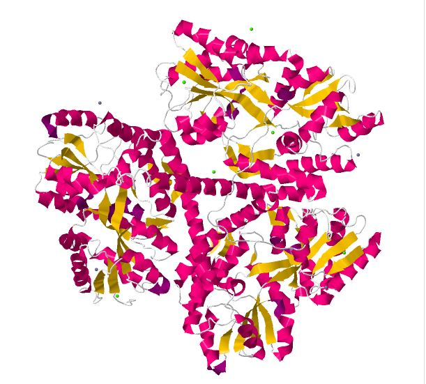 Estructura cristal·litzada de la regió N-terminal de la hungtintina humana.